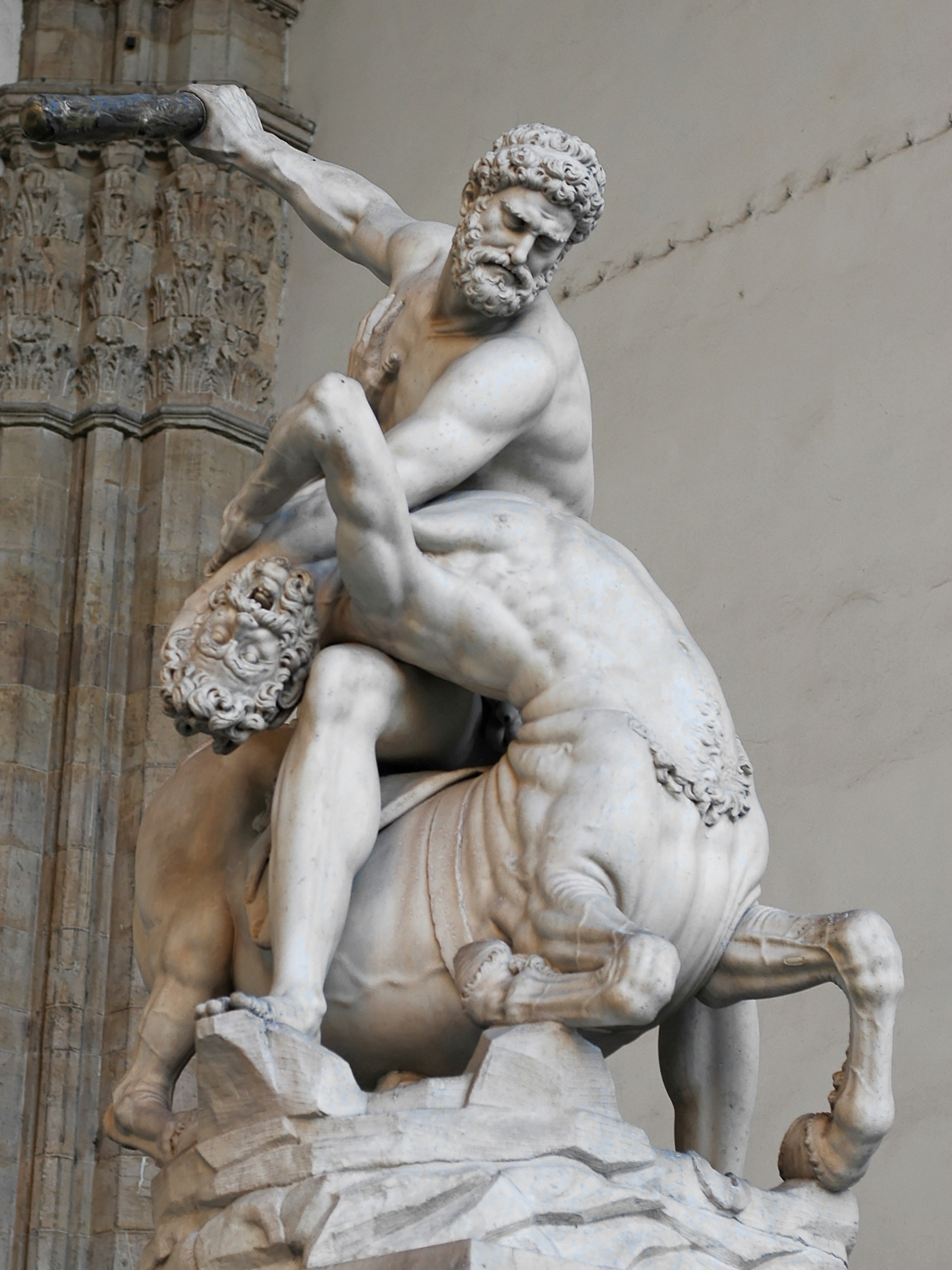 Heracles fighting the centaur Nessus by Giambologna (with the help of Pietro Francavilla). Marble, 1595–1599. Formerly at the Canto dei Carnesecchi, installed at the Loggia dei Lanzi since 1789.